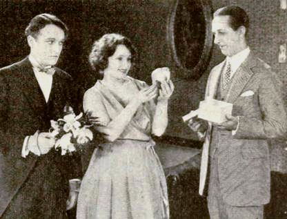 Still from the American film Red Hot Romance (1922) with Basil Sydney, May Collins, and an unidentified actor, on page 59 of the March 1922 Photoplay.